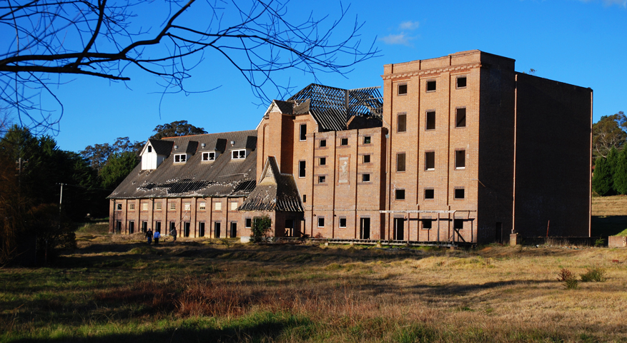 The abandoned "Tooths Brewery" Malt House at Mittagong NSW.